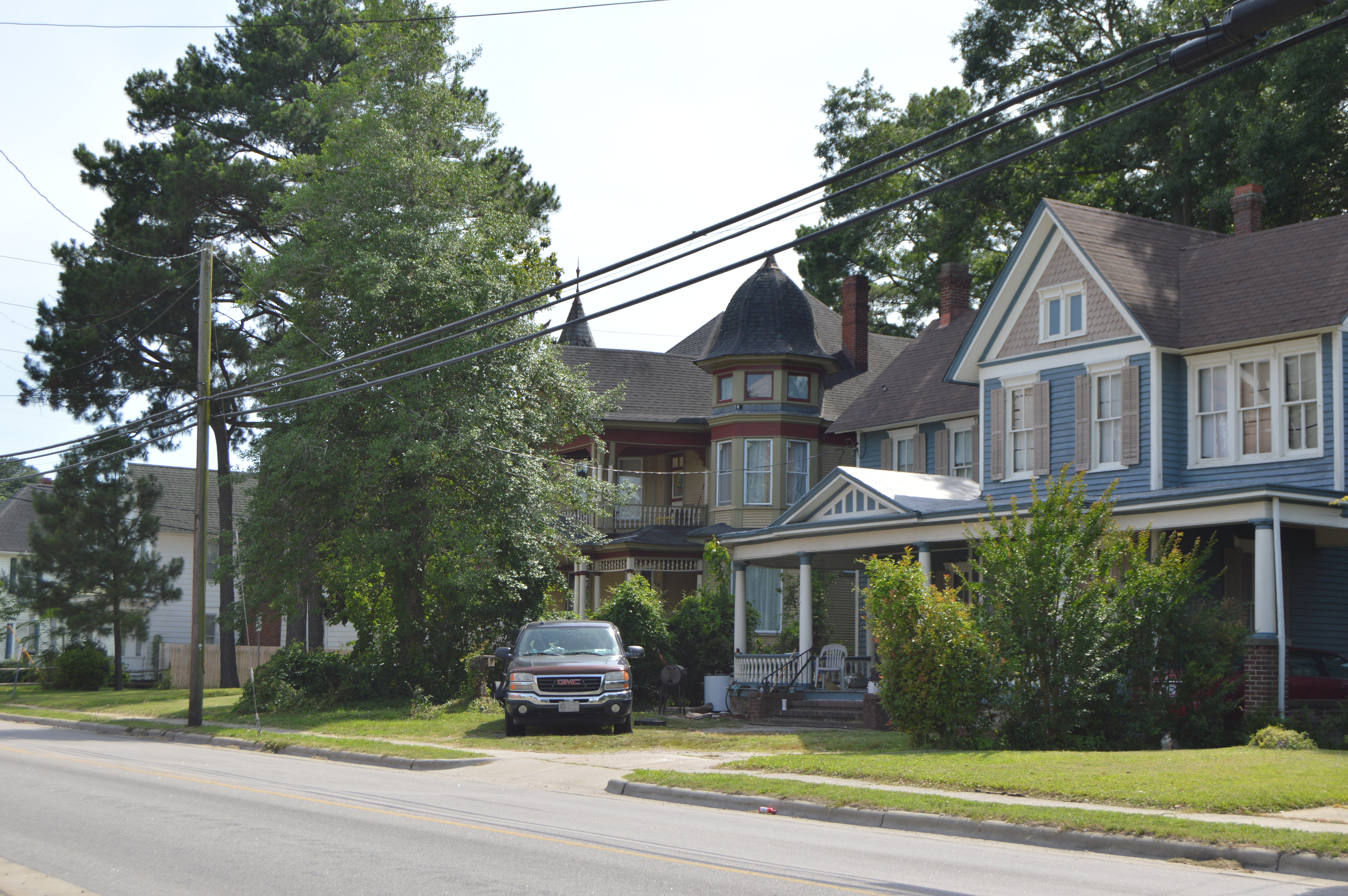 Houses on the western side of Road Street (U.S. Route 17 south of Queen Street in Elizabeth City, North Carolina, United States. This block is part of the Northside Historic District, a historic district that is listed on the National Register of Historic Places.